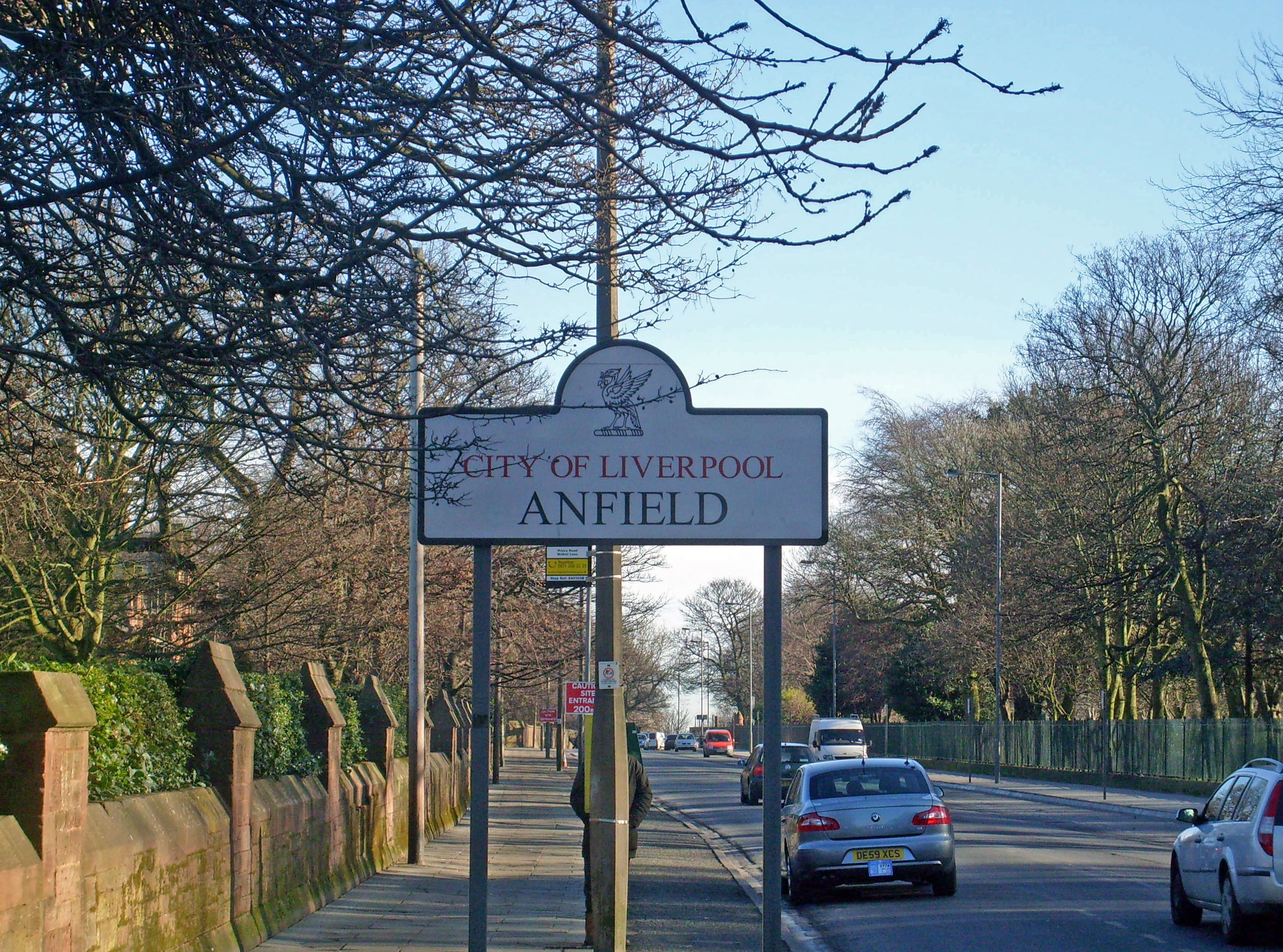 Anfield sign on Priory Road near junction of Walton Lane.